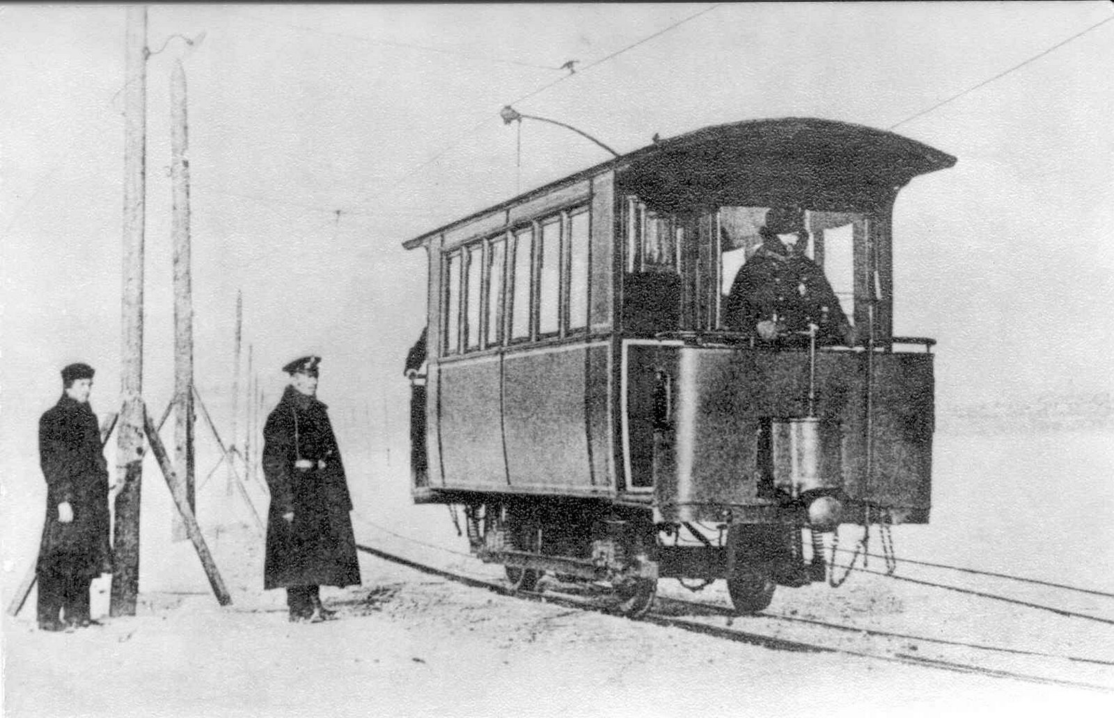 Tram on ice in Saint Petersburg.